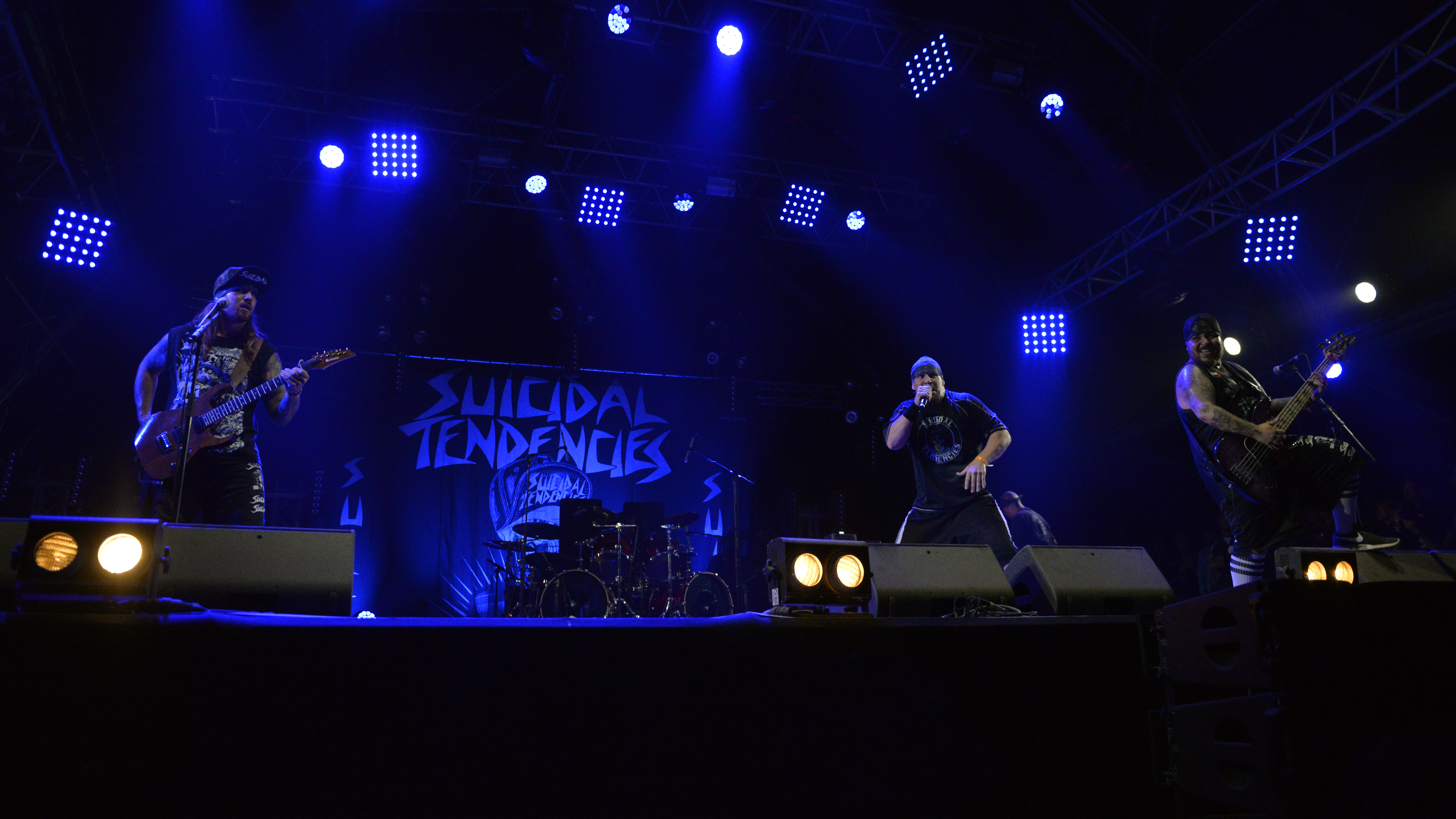 Suicidal Tendencies at Hellfest 2017, France.